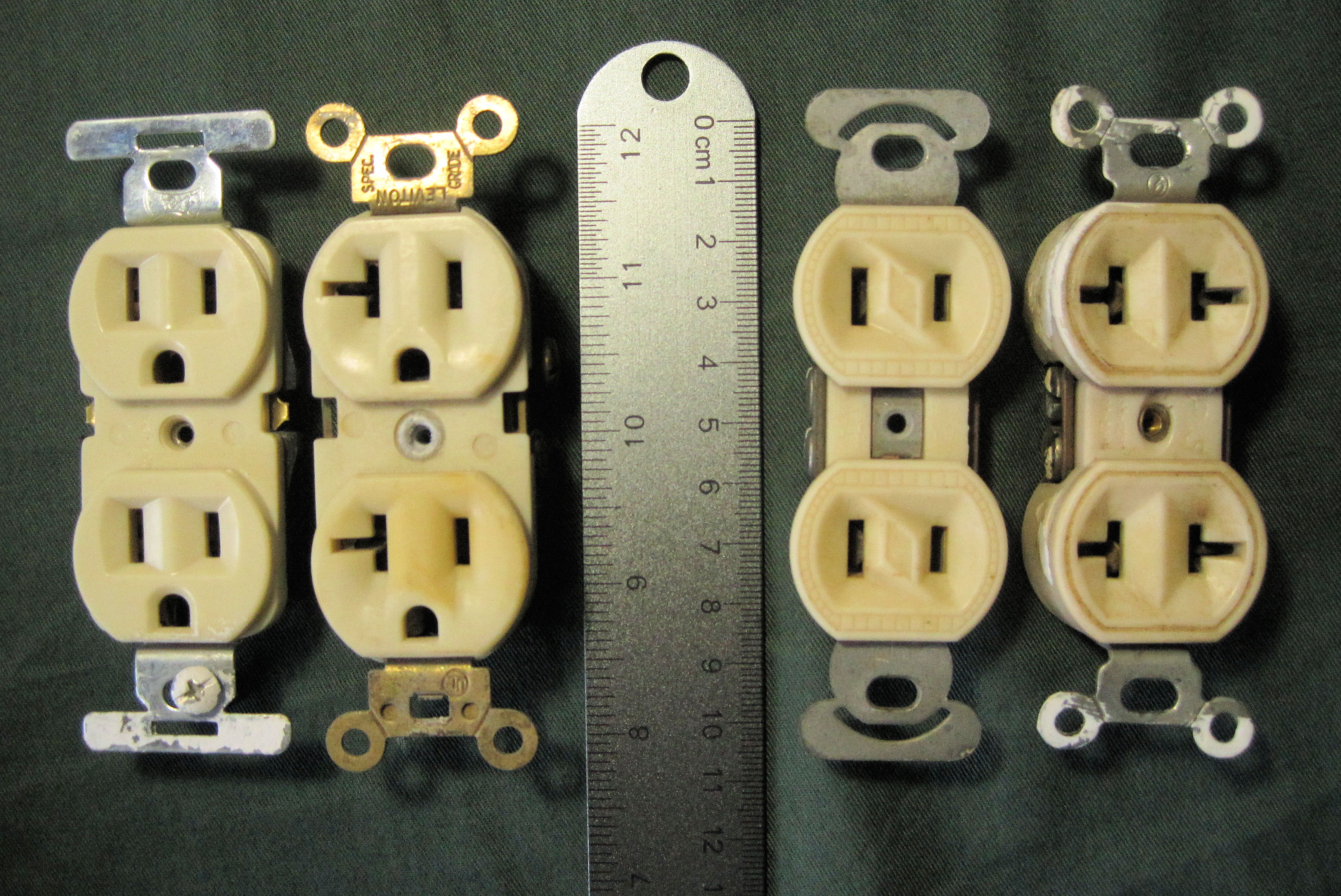 NEMA connectors 125 volt receptacles in common use in North America as of 2012 Grounding (Type B) devices to left of ruler: NEMA 5-15R, for use on 15 or 20 ampere circuits, accepts 1-15P and 5-15P plugs NEMA 5-20R, for use on 20 ampere circuits only, accepts 1-15P, 5-15P, and 5-20P plugs Pre-1962 non-grounding (Type A) devices to right of ruler: NEMA 1-15R, for use on 15 or 20 ampere circuits, accepts 1-15P plugs only "Double T-slot", not manufactured since early 1960s, accepts 1-15P and the long-obsolete 2-15P (These last two for use only in existing circuits where no grounding conductor is available)